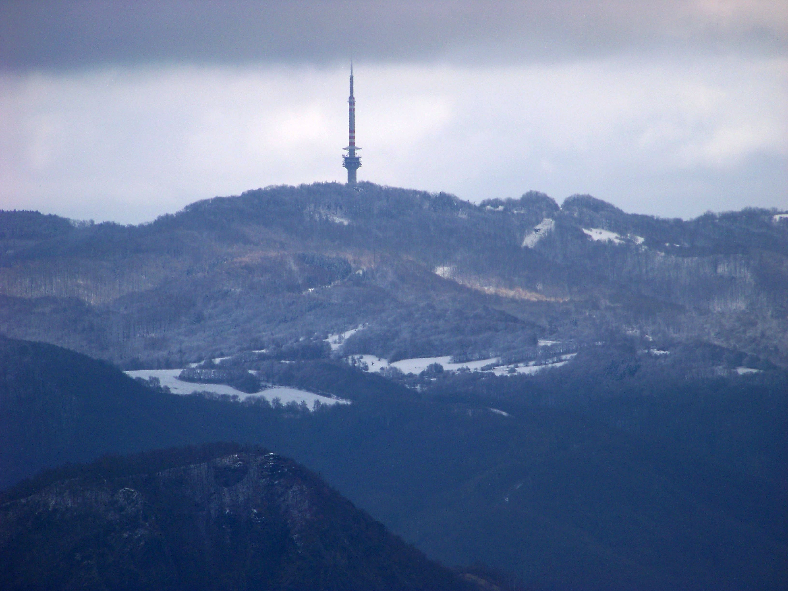 Ústí nad Labem, the Czech Republic. A view from the observation tower Erbenova vyhlídka. Buková hora.